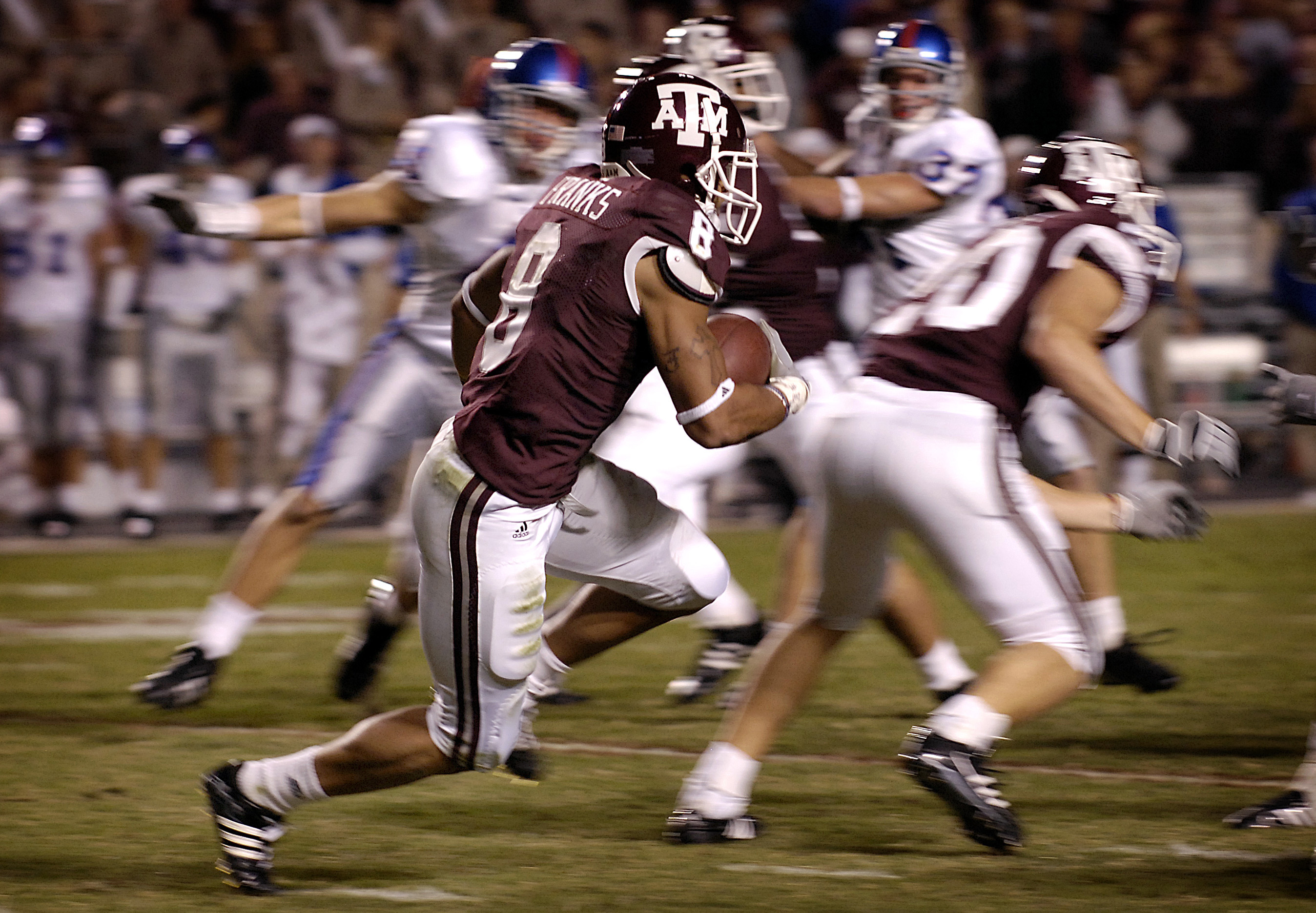 Texas A&M Aggies wide receiver Kerry Franks carries the ball against the University of Kansas Jayhawks during a football game in College Station, Texas, Oct. 27, 2007. Secretary of Defense Robert M. Gates and President George H. W. Bush both attended the game where Gates honored U.S. Marine Corps 1st Lt. Dan Moran, a former Aggie student who was wounded while serving in Iraq, with the Navy Commendation Medal with Valor.